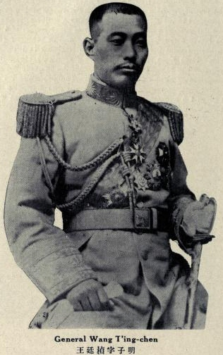 Wang Tingzhen, Ziming (1876 - 1940)